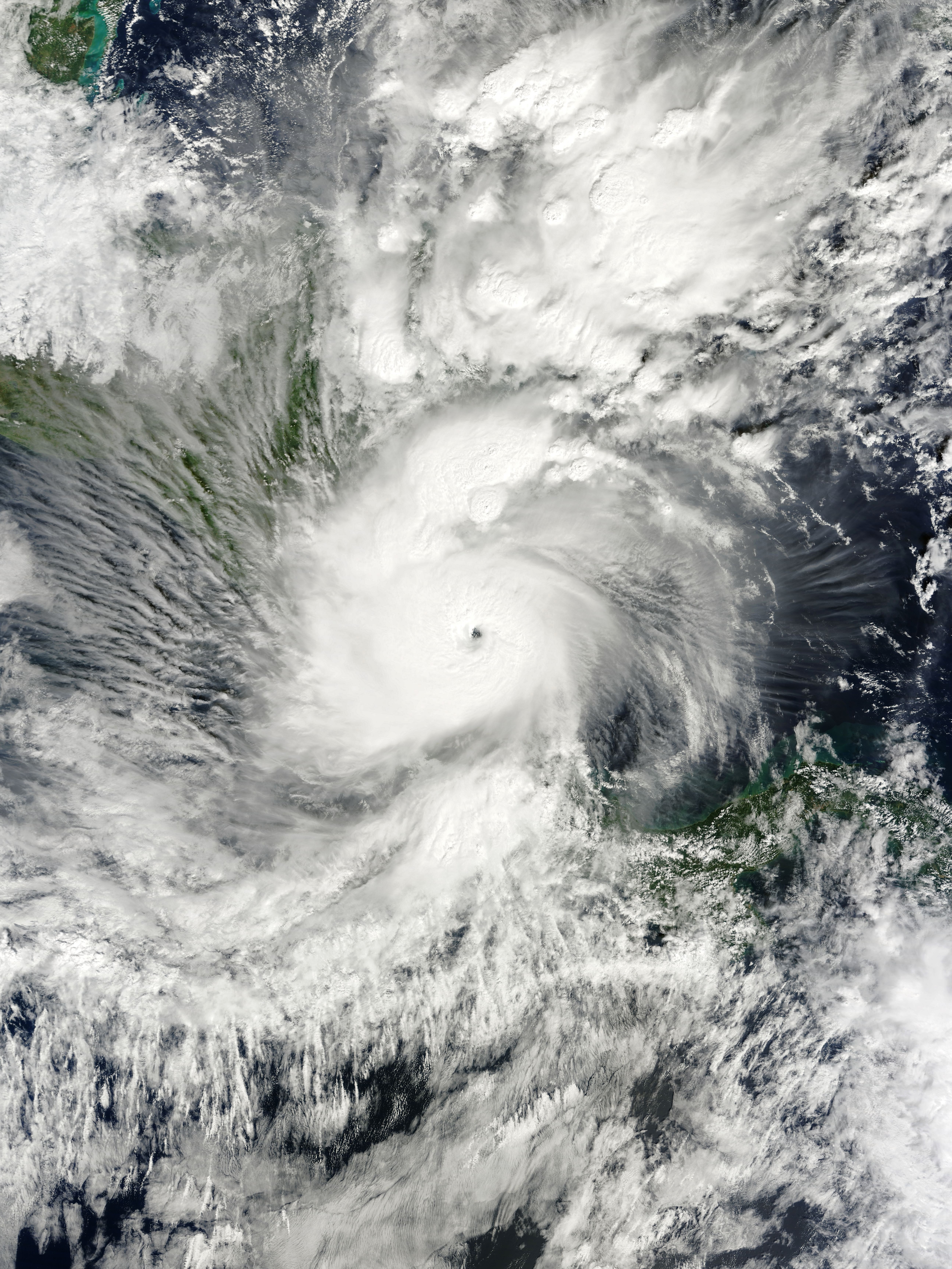 Hurricane Otto at peak intensity and immediately before making landfall over the southeast coast of Nicaragua on November 24, 2016.